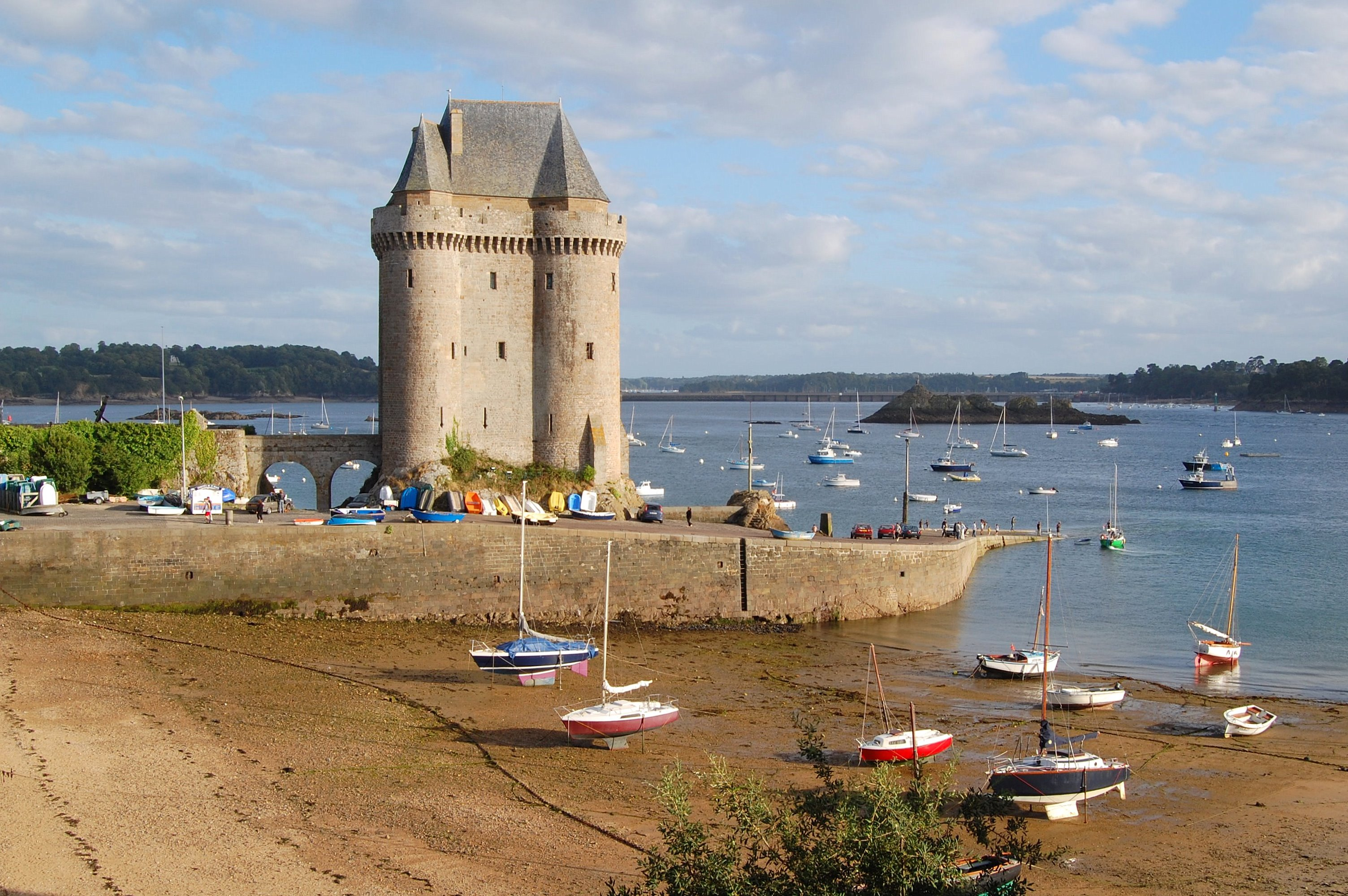 The Solidor tower in the estuary of the river Rance in Brittany (France). It was built between 1369 and 1382 by John V, Duke of Brittany (i.e. Jean IV in French) to control access to the Rance at a time when the city of Saint-Malo did not recognize his authority. Over the centuries the tower lost its military interest and became a jail. It is now a museum celebrating Breton sailors exploring Cape Horn. The Solidor tower is located in the former city of Saint-Servan, which merged with Saint-Malo in 1967.